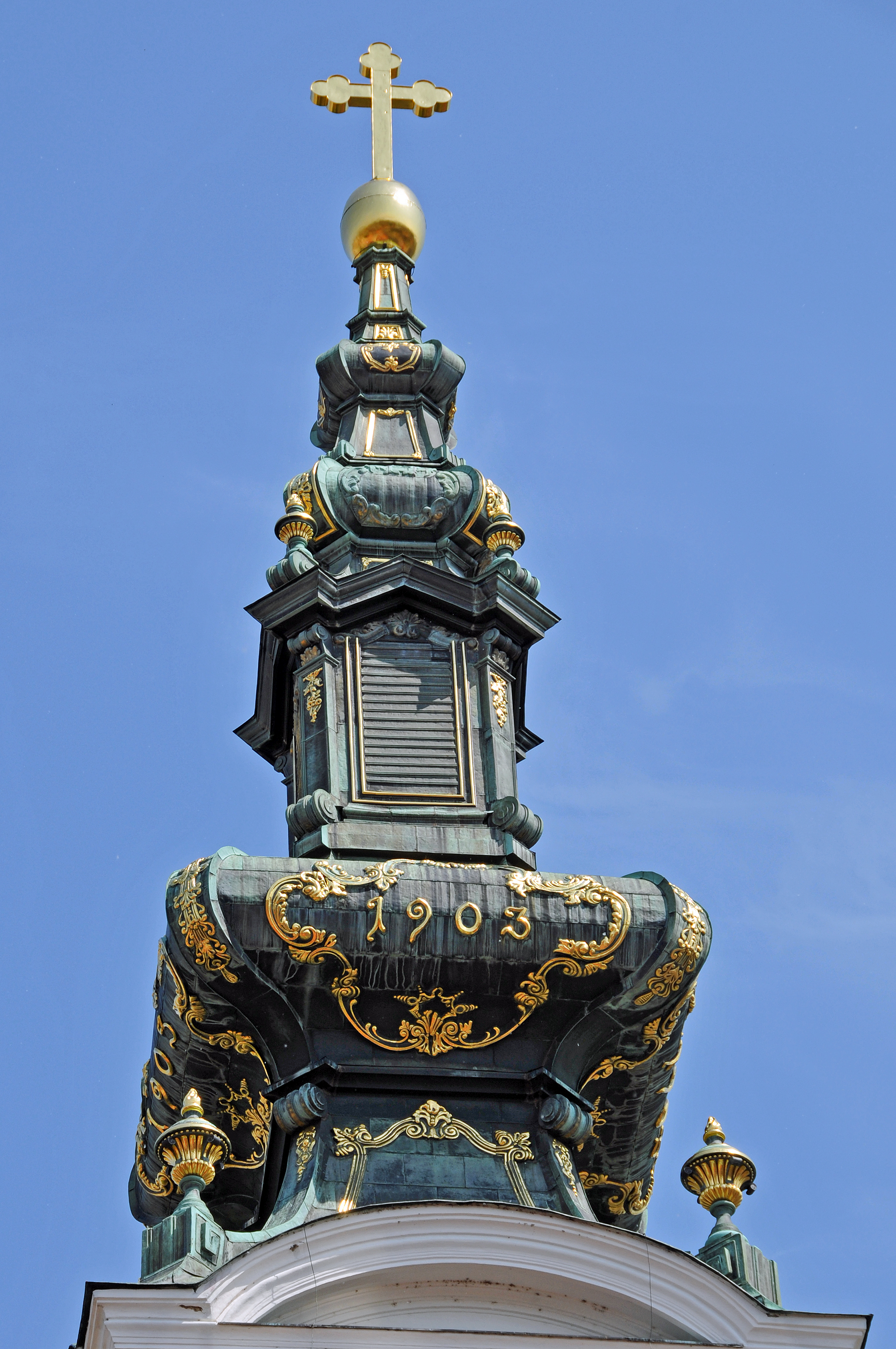 PLEASE, no multi invitations, glitters or self promotion in your comments, THEY WILL BE DELETED. My photos are FREE for anyone to use, just give me credit and it would be nice if you let me know, thanks - NONE OF MY PICTURES ARE HDR. The Orthodox Cathedral of Saint George is a head church of Serbian Orthodox. It was built between 1860 and 1905, after the old temple was almost totally destroyed in the Revolution of 1848/1849. The church was built on the place of older one, dating from 1734. The Novi Sad Orthodox Cathedral is dedicated to the Saint George. Inside the church there are 33 icons on the iconostasis, historical pictures above both choirs, as well as two large throne icons.